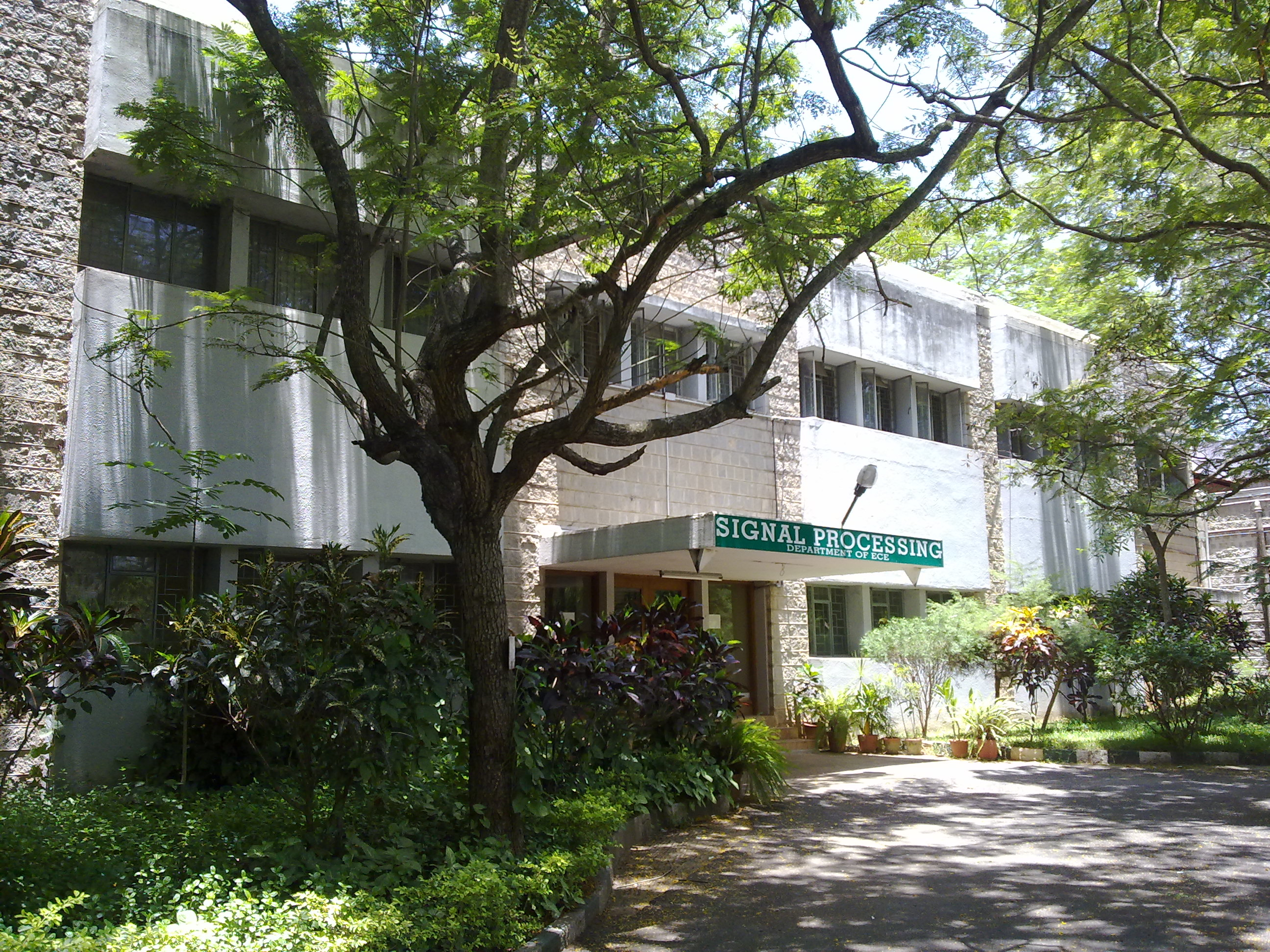 SP Building